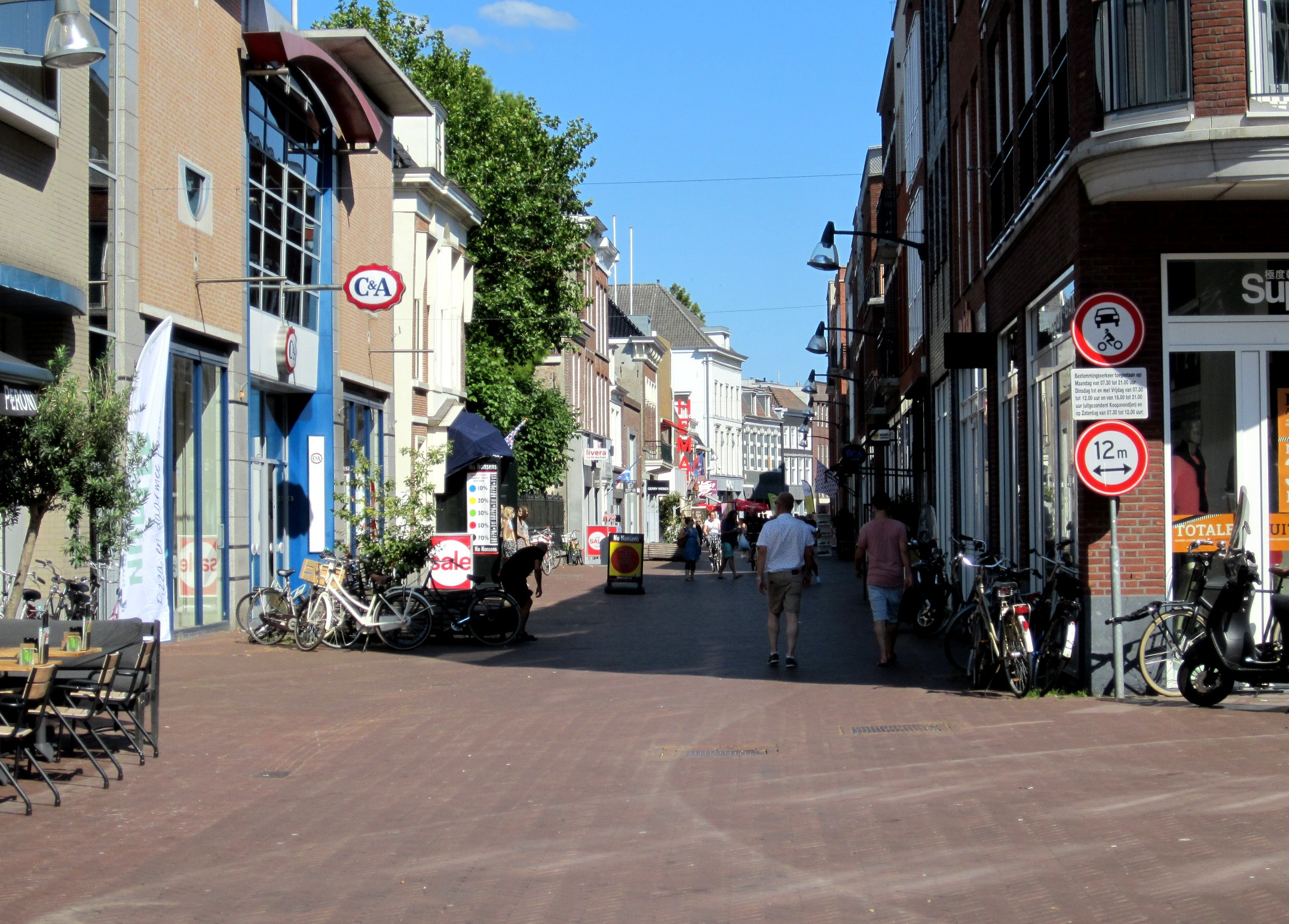 Ruiterskwartier (Frisian: Ruterskertier), a street in Leeuwarden/Ljouwert, Friesland, the Netherlands. Seen from the Palace of Justice at Zaailand square in an easterly direction along the north side of Zaailand square (which lies just to the right of the row of buildings on the right side of the photograph.